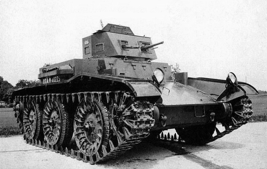 Convertible Combat Car T7 with its tracks installed at Aberdeen Proving Ground on 16 August 1938.